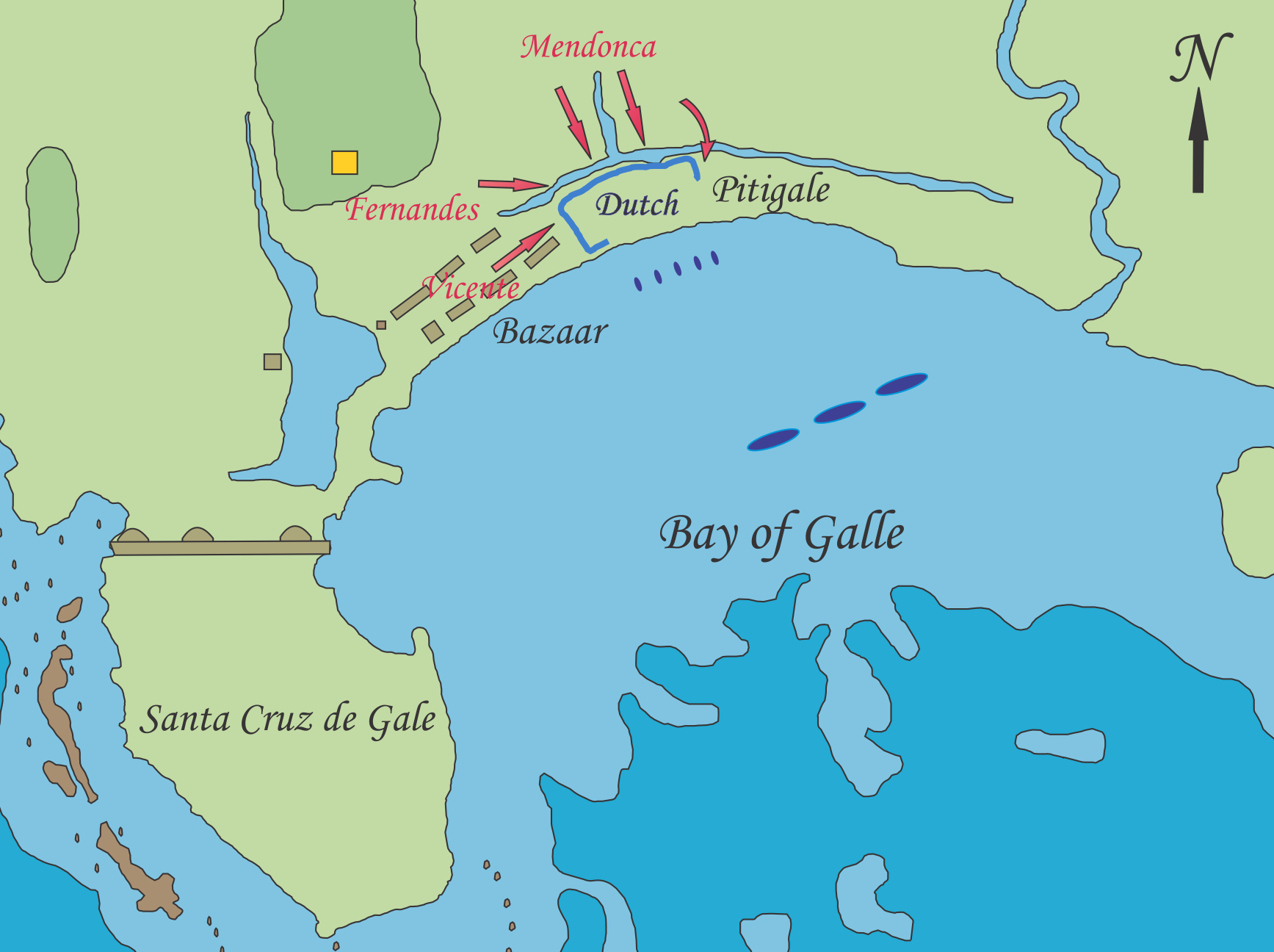 Map showing the Portuguese attack on Dutch positions, during the siege of Santa Cruz de Gale at Galle on 09th October 1640. Portuguese troops are shown in red and Dutch troops are shown in blue. Map based on details in, Fernao de Queyroz. The temporal and spiritual conquest of Ceylon [SG Perera, Trans]. AES reprint. New Delhi: Asian Educational Services; 1995. p831-837 ISBN 81-206-0767-8 Paul E.Peiris. Ceylon the Portuguese Era: being a history of the island for the period, 1505-1658 - Volume 2. Tisara Publishers Ltd:Sri Lanka; 1992. p271-274 OCLC: 12552979.